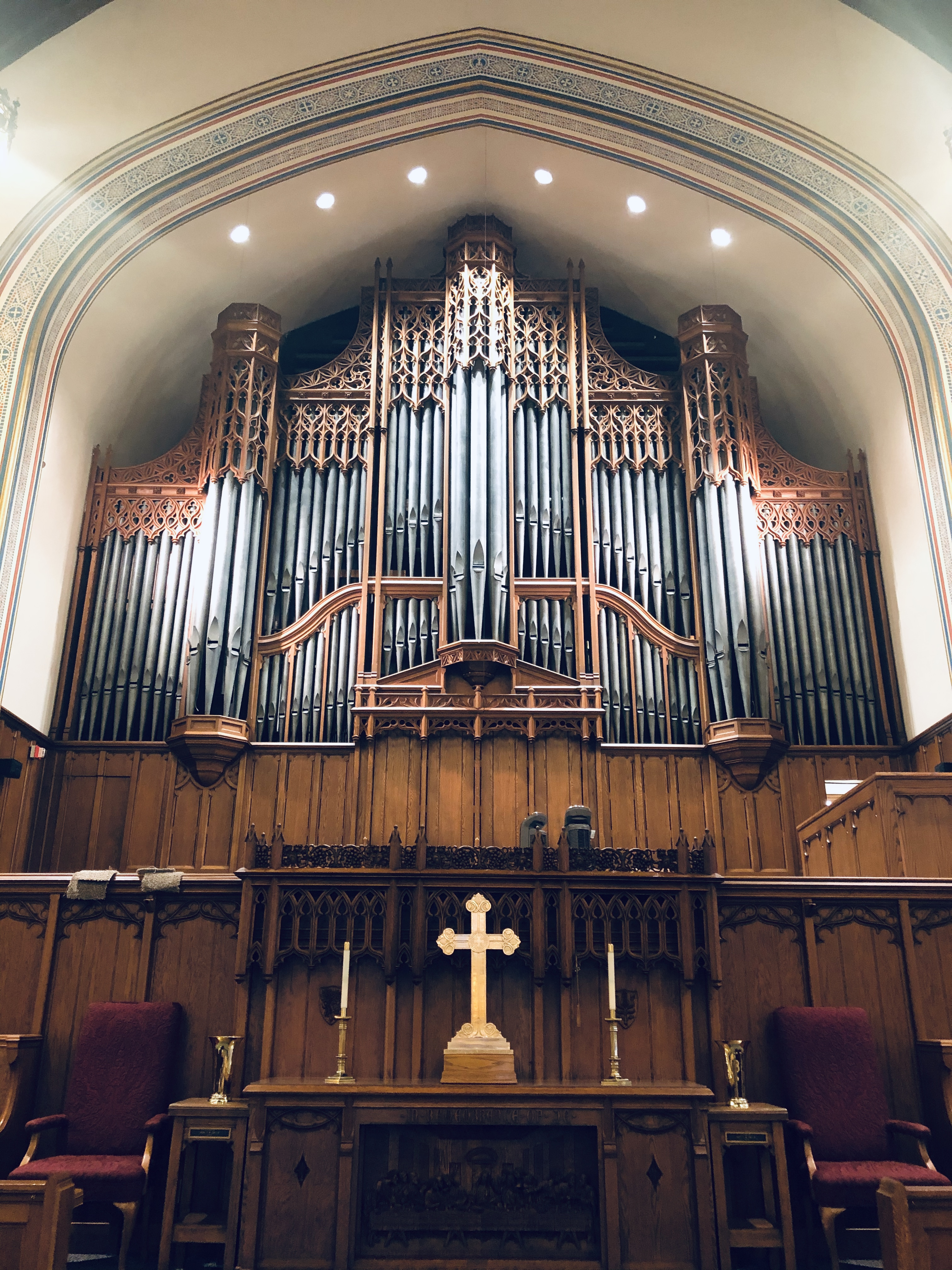 Missouri United Methodist Church Skinner Pipe Organ. Taken on Juneteenth 2020.